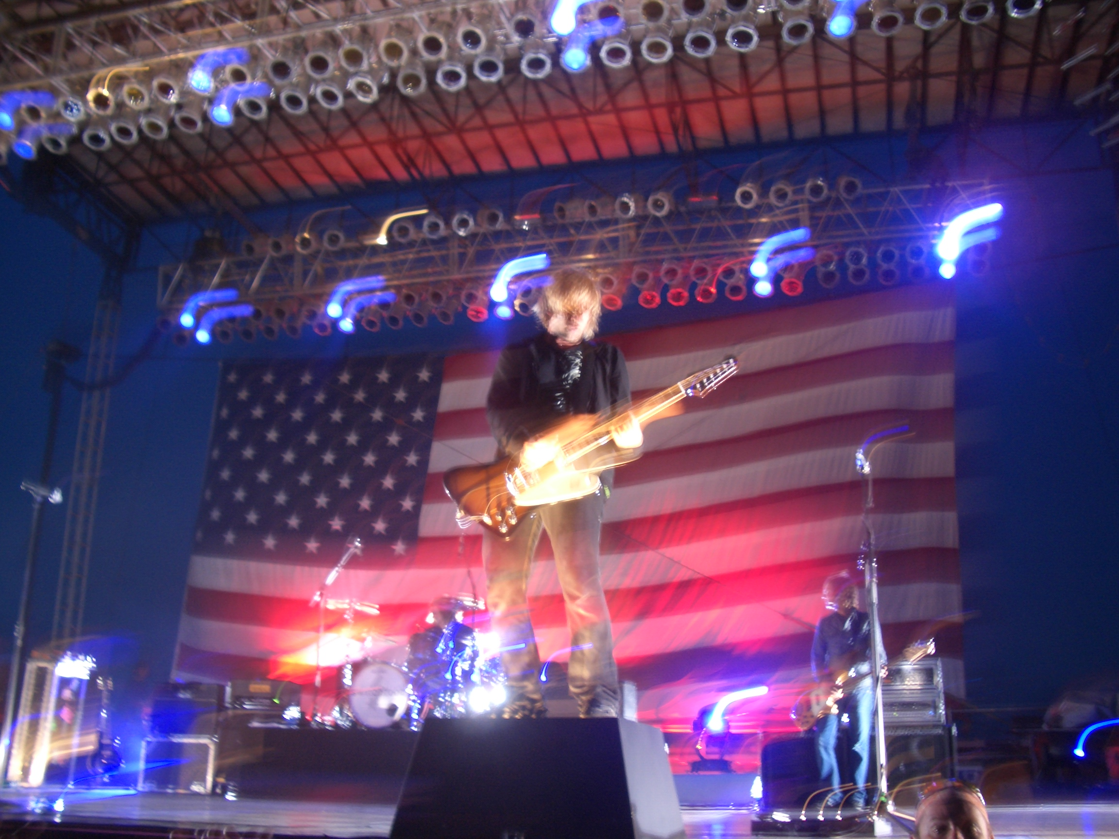 I took the photo myself at the Fair St. Louis festival under the Gateway Arch on July 4, 2005.